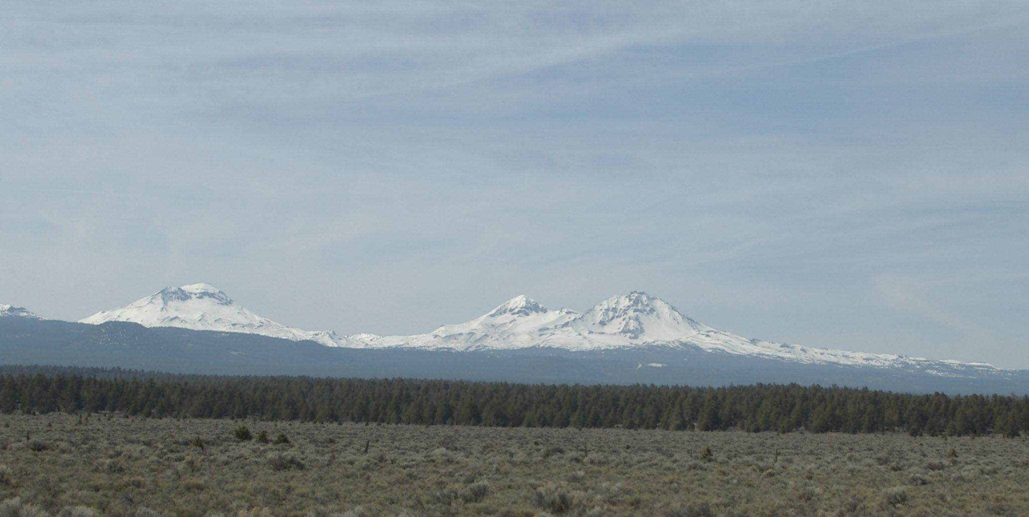 Three Sisters in Central Oregon as seen from a viewpoint on US 20 east of the town of Sisters